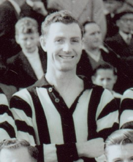 Photograph of Herb Naismith from 1944-1945